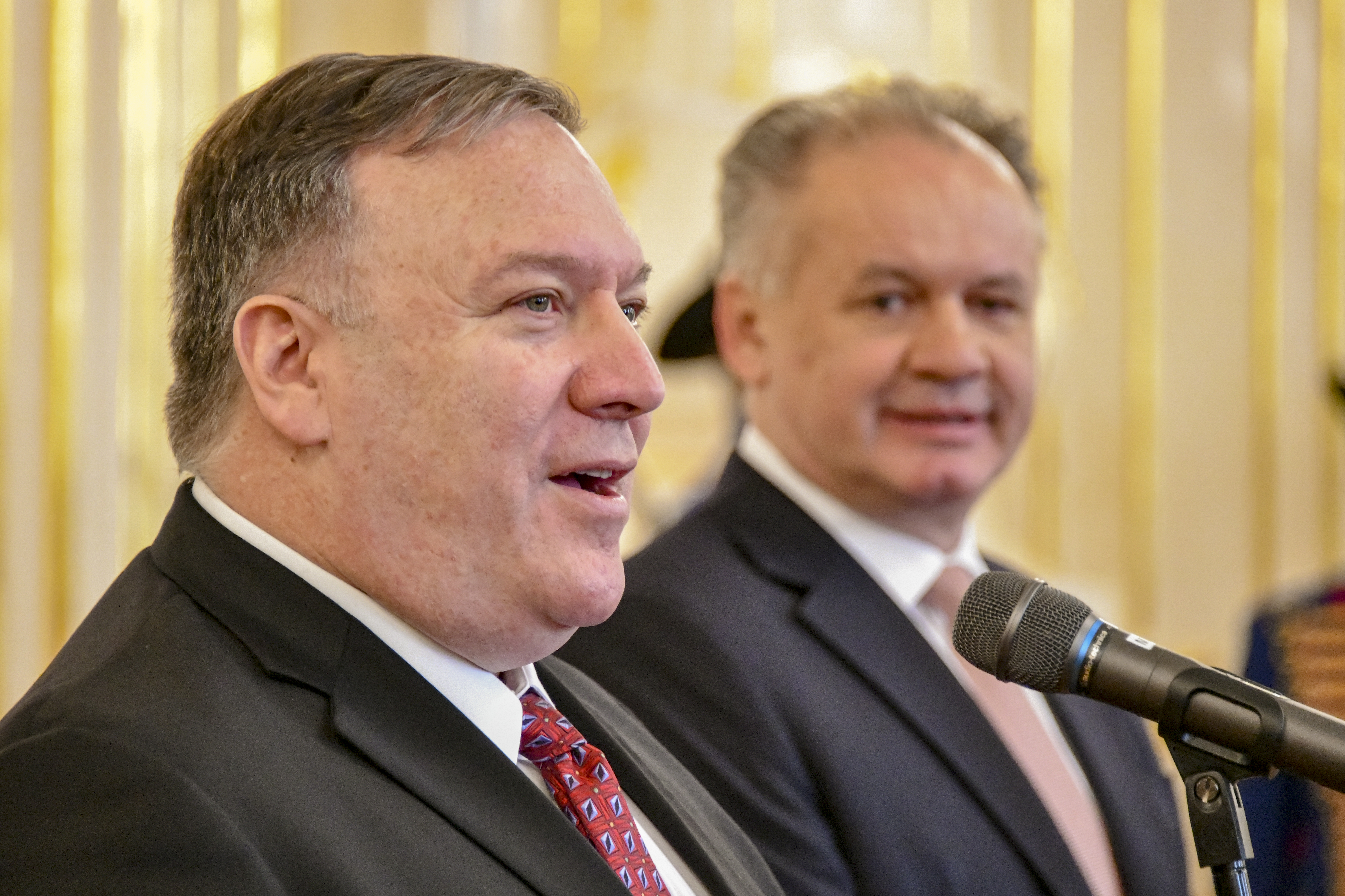 U.S. Secretary of State Michael R. Pompeo meets with Slovak President Andrej Kiska in Bratislava, Slovakia, on February 12, 2019. [State Department photo by Ron Przysucha/ Public Domain]